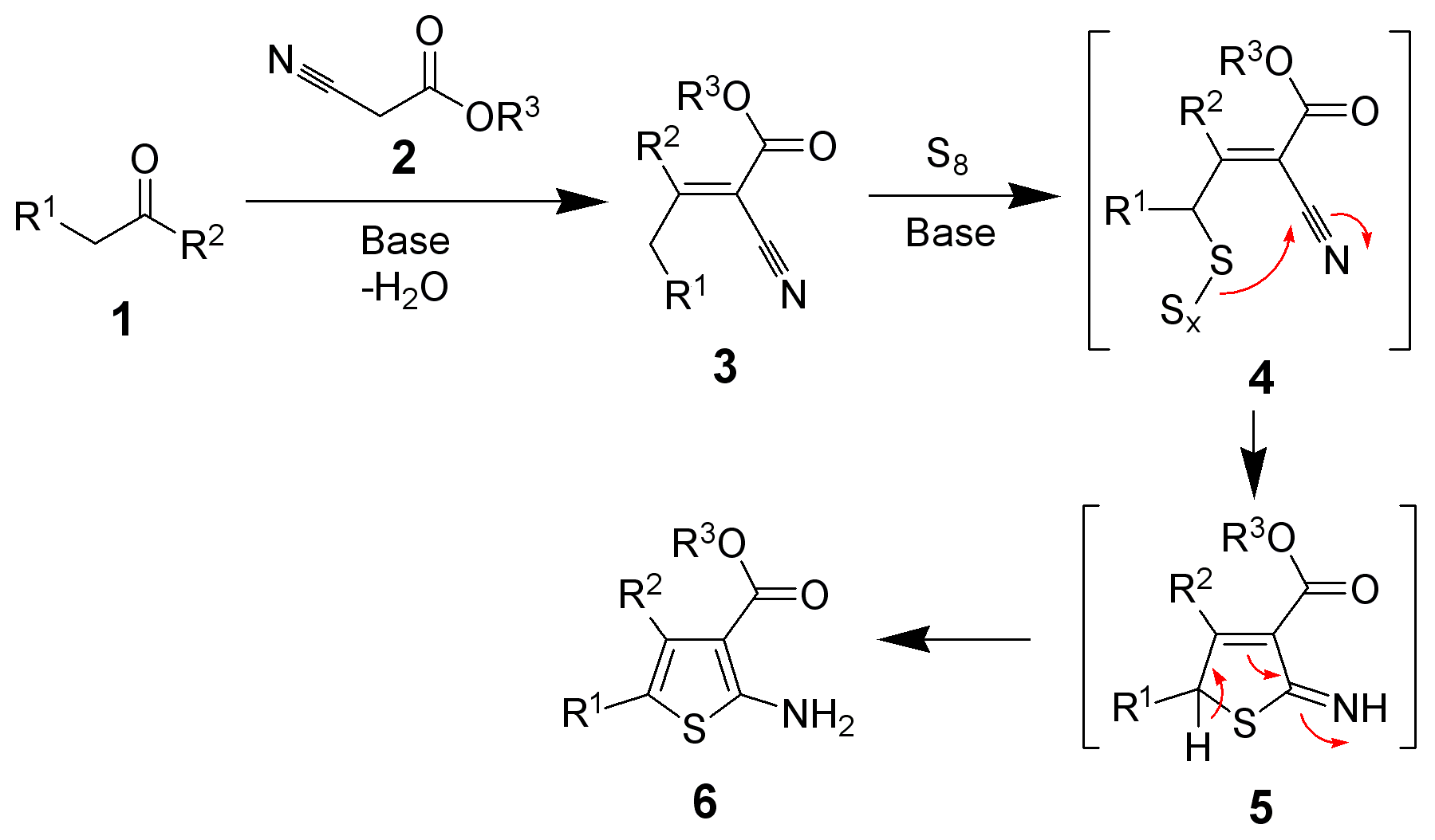 Description: Reaction mechanism of the Gewald reaction. Author, date of creation: selfmade by ~K, 26 February 2006. Source: - Copyright: Public domain. (PD) Comments: high-resolution PNG; ChemDraw / The GIMP.